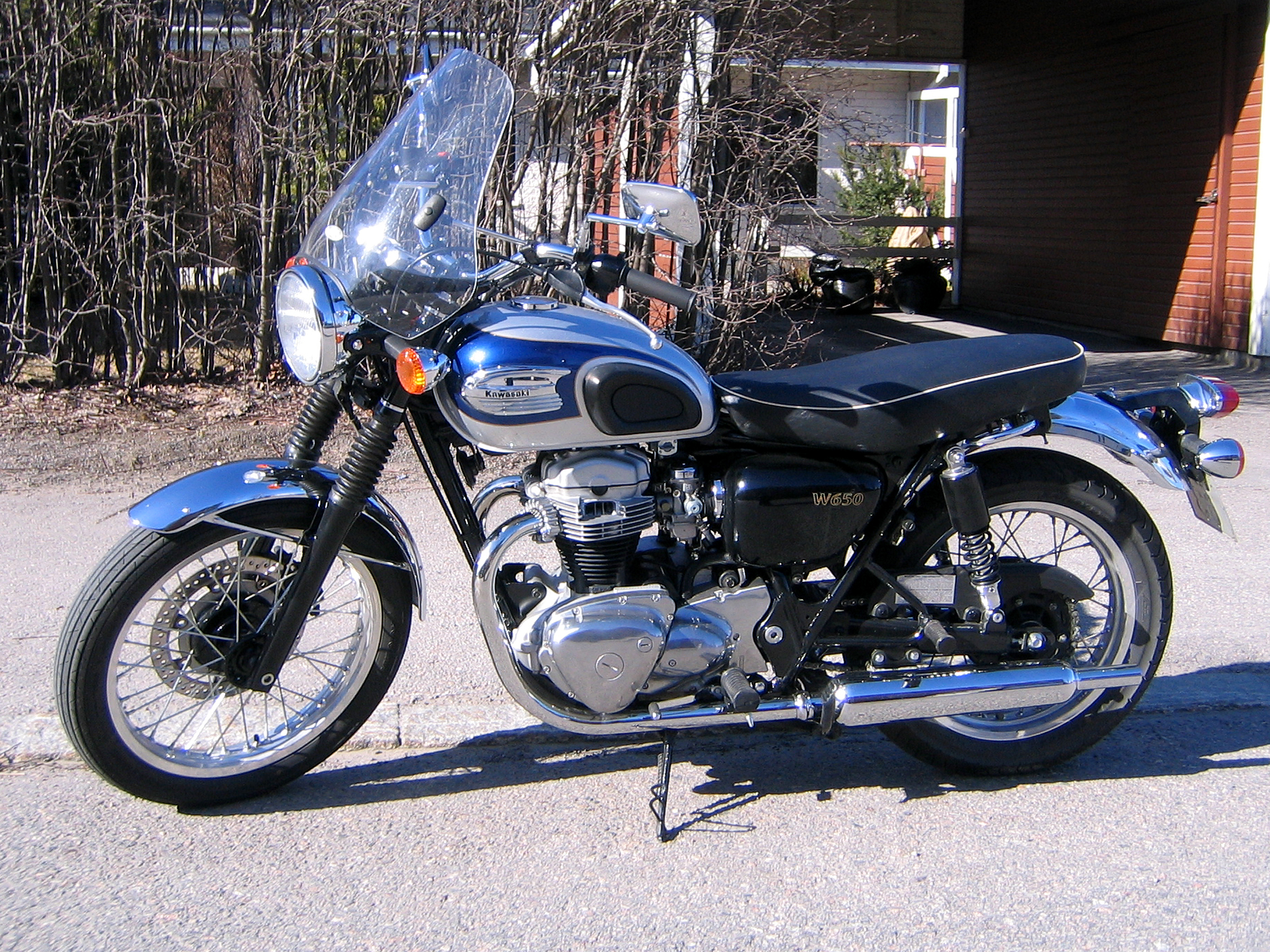 Kawasaki´s retro motorcycle W650 (2000 model) with high bars installed as default. The motorcycle was first introduced in 1998.